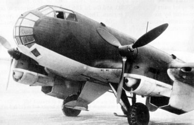 A German Junkers Ju 86P-1 high altitude reconnaissance plane.